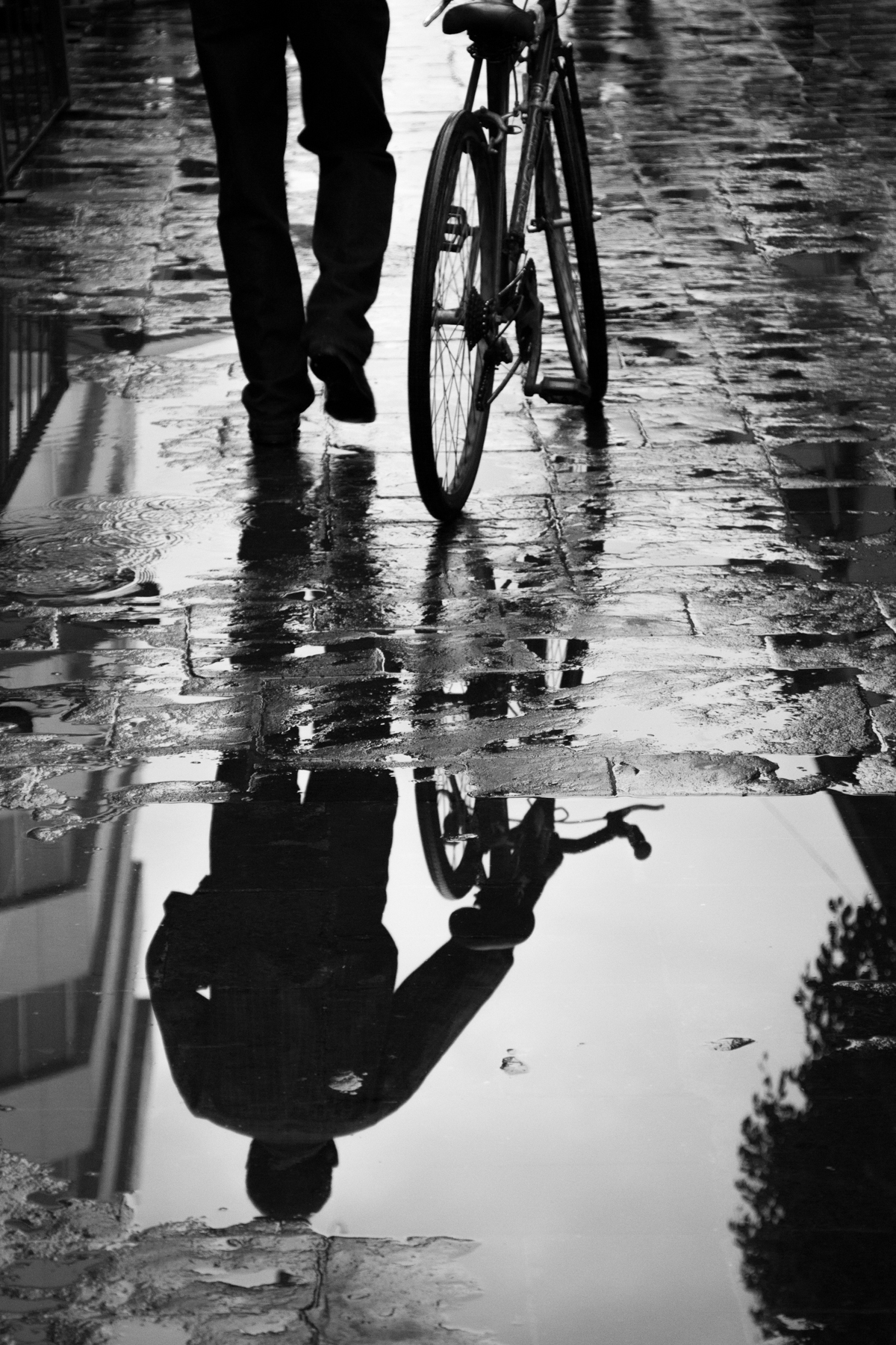 Reflexions on a rainy day...